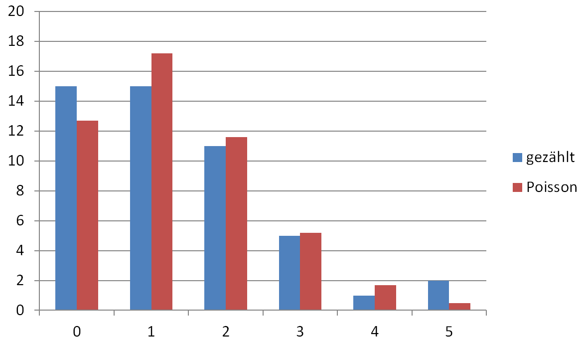 German language depiction of Poisson distribution as found here in this image:Ricepoissor7rp.jpg.